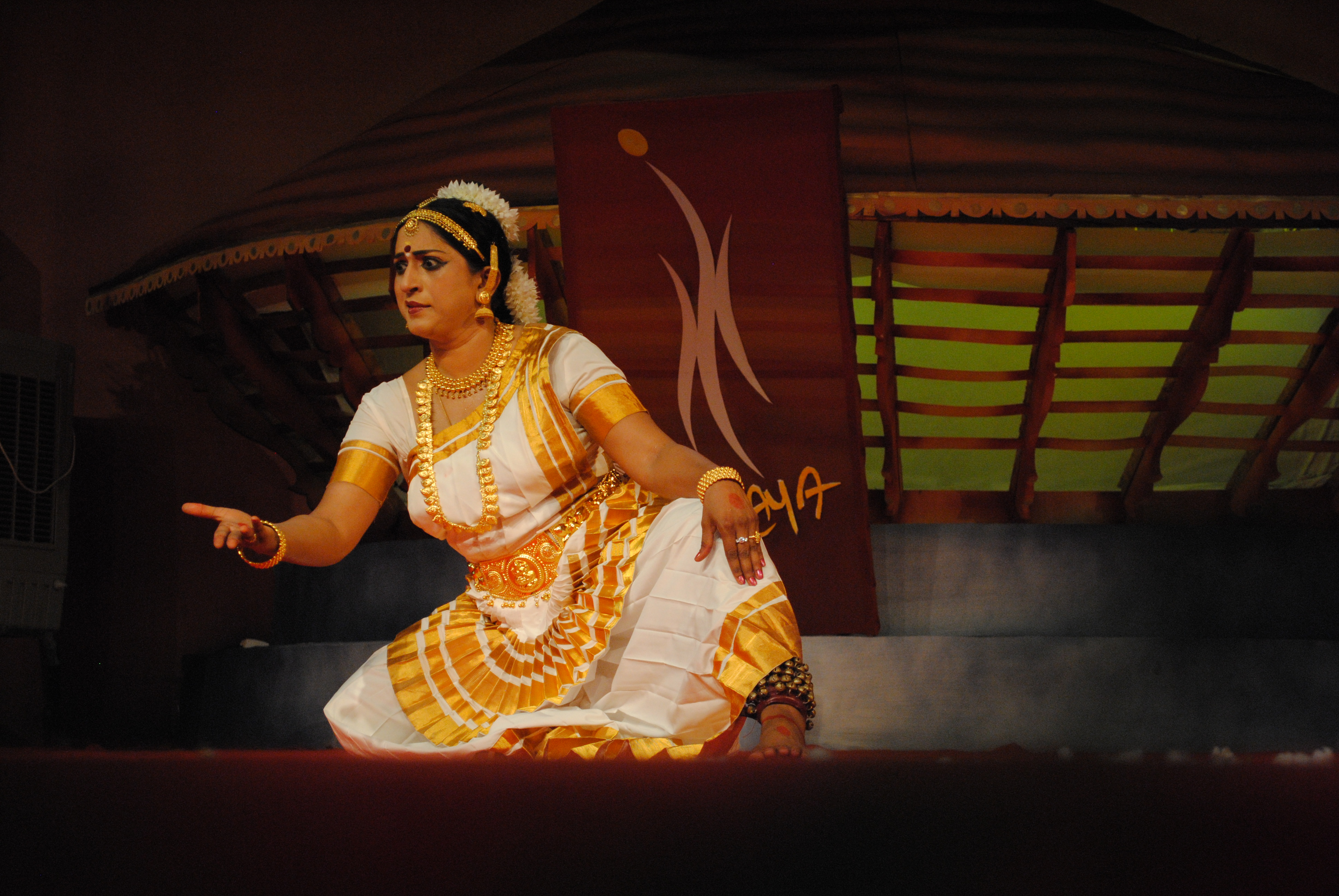 Smitha Rajan performing Mohiniattam.